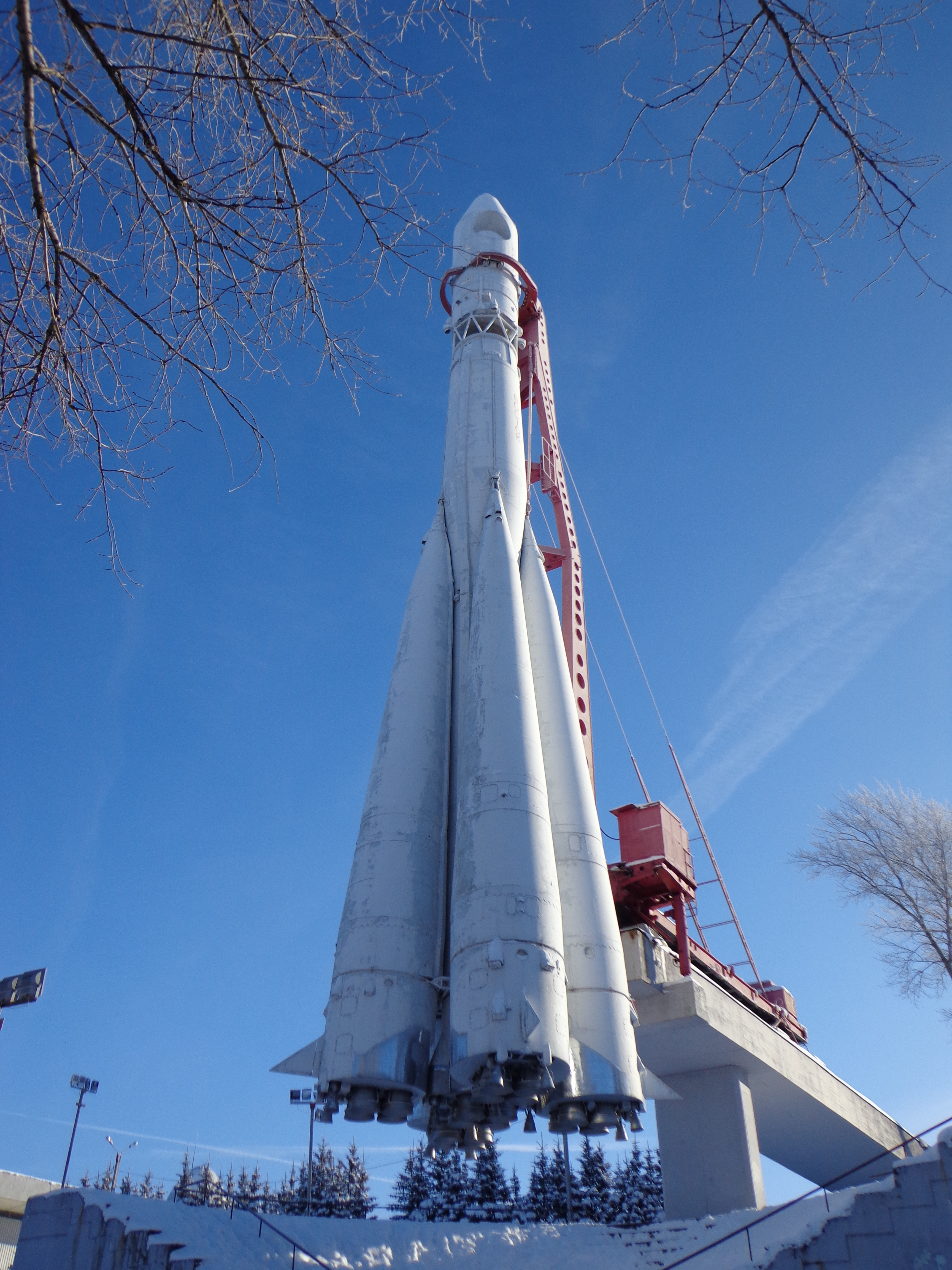 Vostok rocket on Tsiolkovsky Museum park, Kaluga